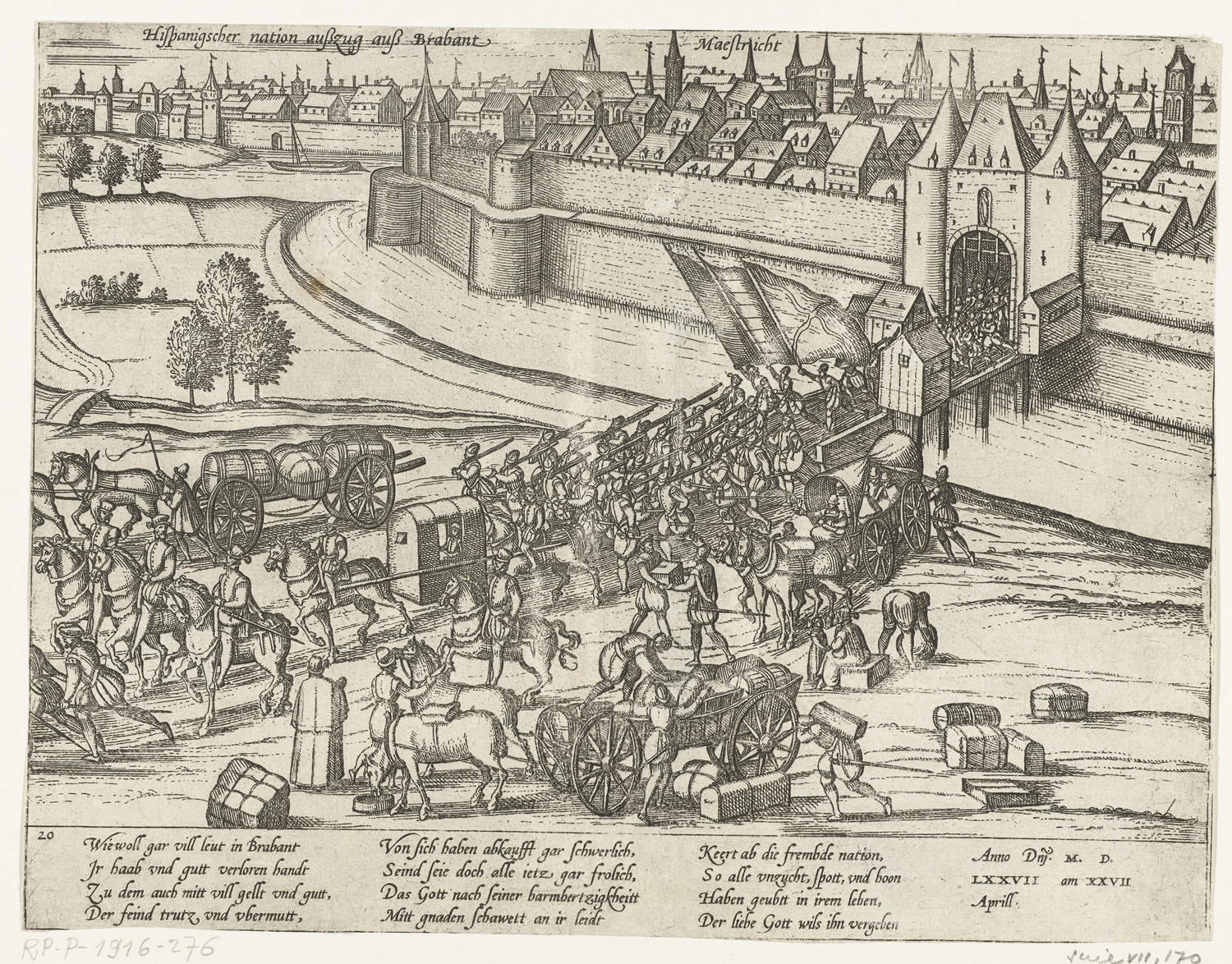 Spanish soldiers leaving Maastricht Netherlands 27 april 1577